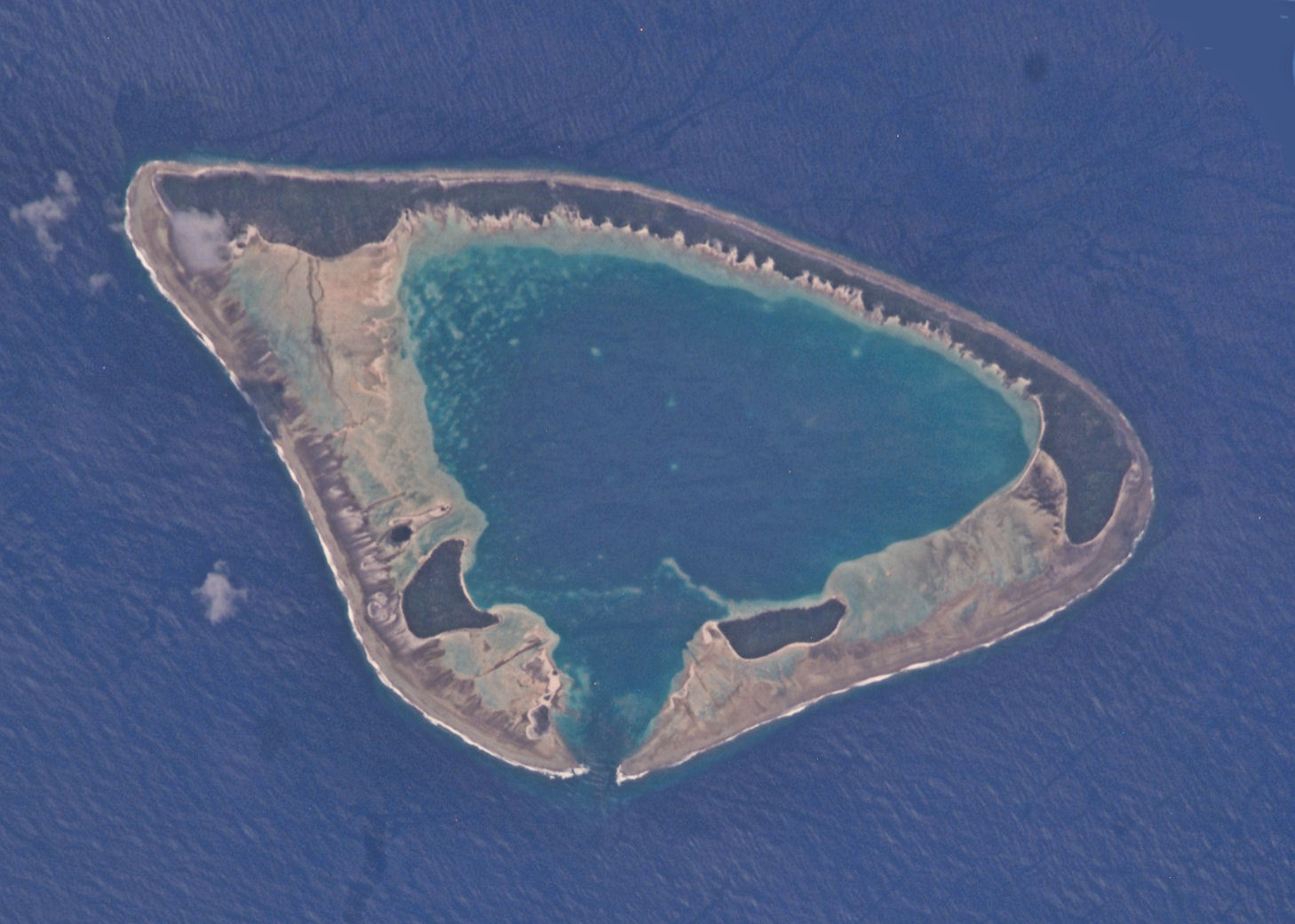 Haraiki Atoll (Tuamotu Archipelago, French Polynesia) from spacecraft altitude of 380 km